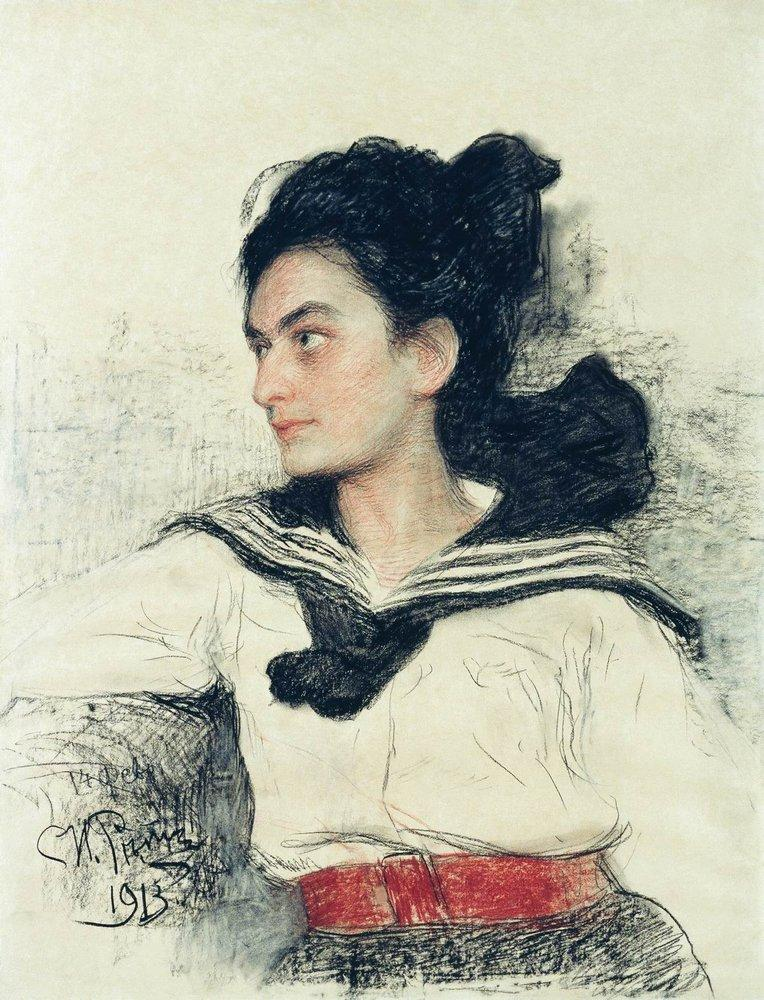 Portrait of Maria Osipovna Lowenfeld, daughter of art collector O. D. Lowenfeld. Charcoal and sanguine on paper. 63.5 × 49 cm. Chelyabinsk Region Picture Gallery.